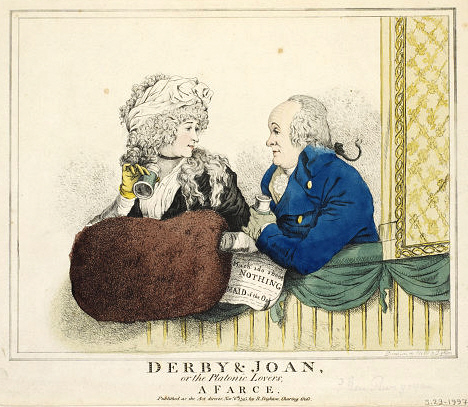 Derby and Joan, or the Platonic Lovers – A Farce, published by Robert Dighton, London 1795 (satirical image of Elizabeth Farren and Edward Smith Stanley, 12th Earl of Derby) Victoria and Albert Museum, London, Museum number: S.29-1997